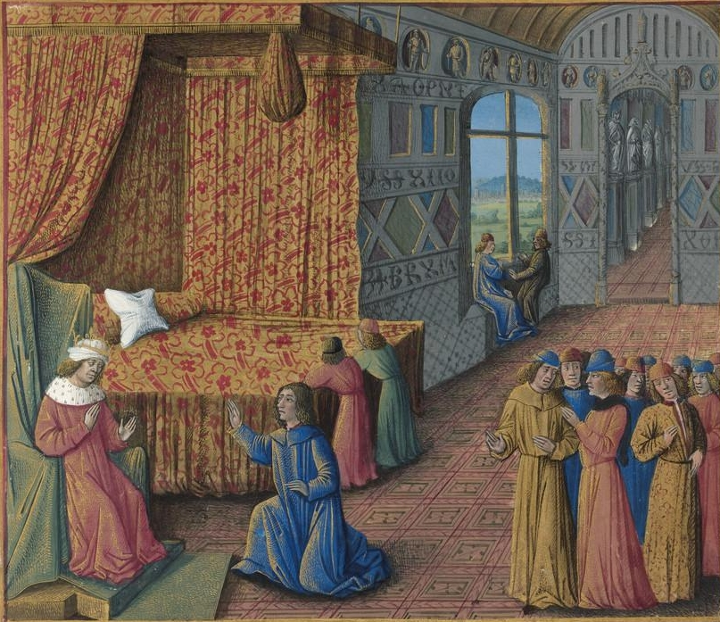 Miniature: Guy of Lusignan is offered the regency